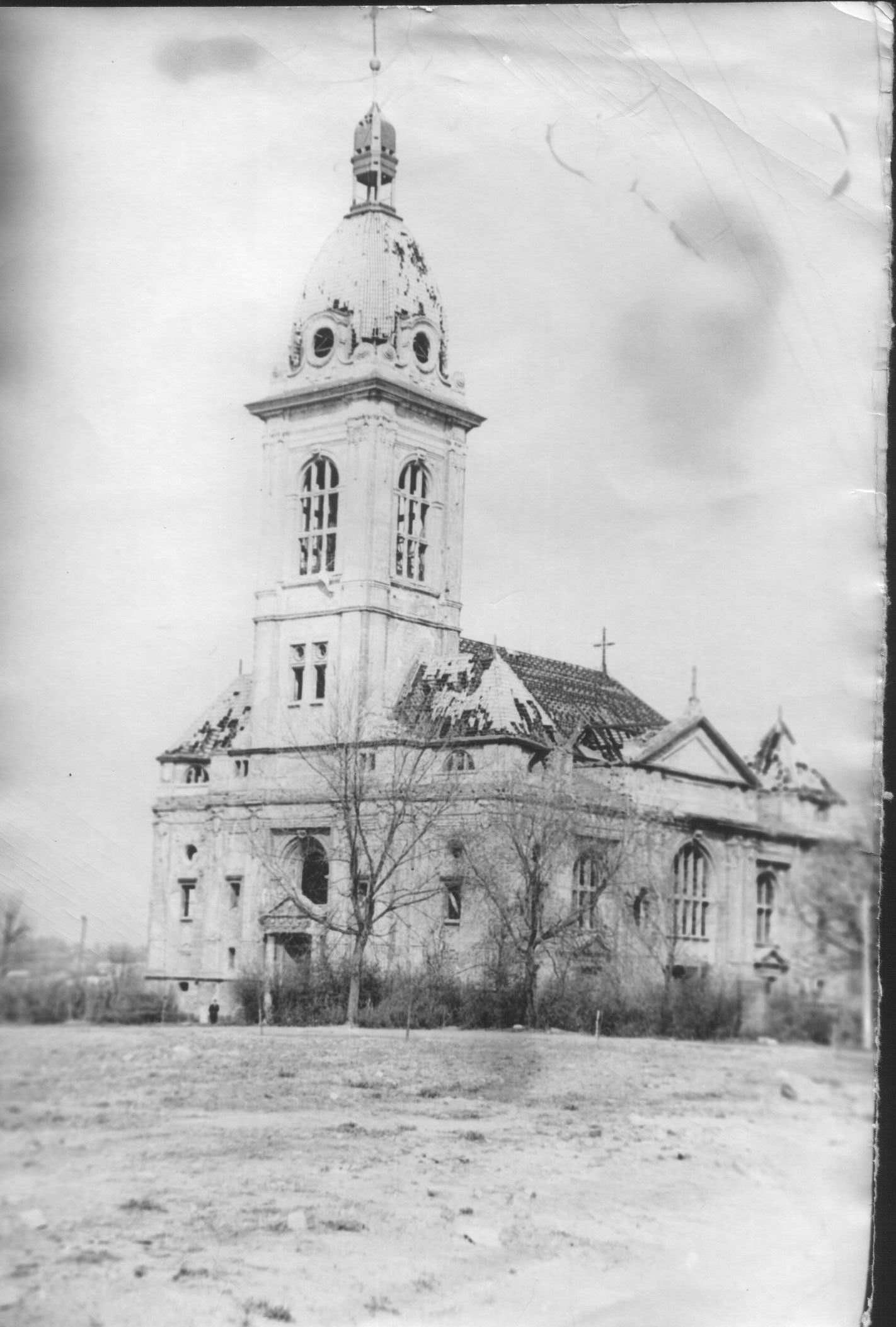 60-th, Luther kirche, Kaliningrad